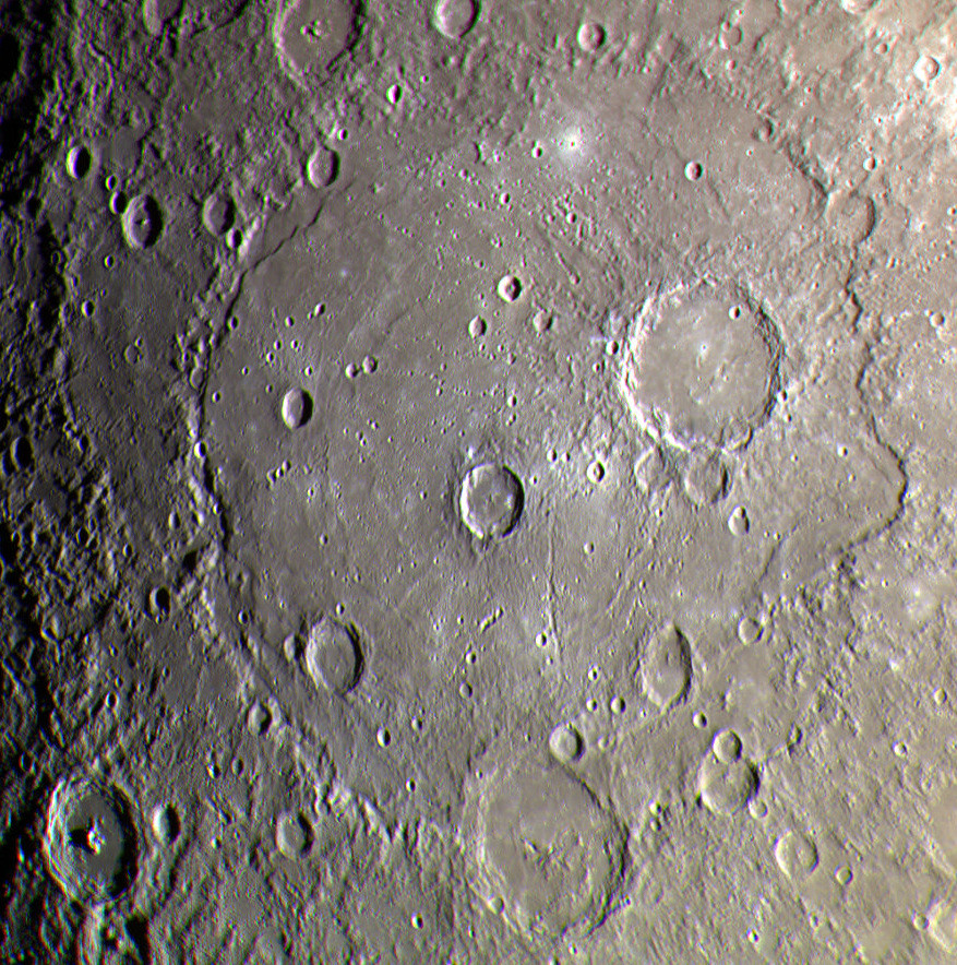 Oblique view of Beethoven crater on Mercury. Approximate color representation combining three images acquired by MESSENGER Wide Angle Camera (EW0257129582I, EW0257129586F, EW0257129602G) with I (996.2 nm), G (748.7 nm), and F (433.2 nm) filters. Combined in GIMP software as RGB (Red-Green-Blue). Approximate north is up. Statistics for I image: Emission Angle: 34.0 Incidence Angle: 75.5 Latitude: -21.7 Longitude: 235.1 Phase Angle: 41.5